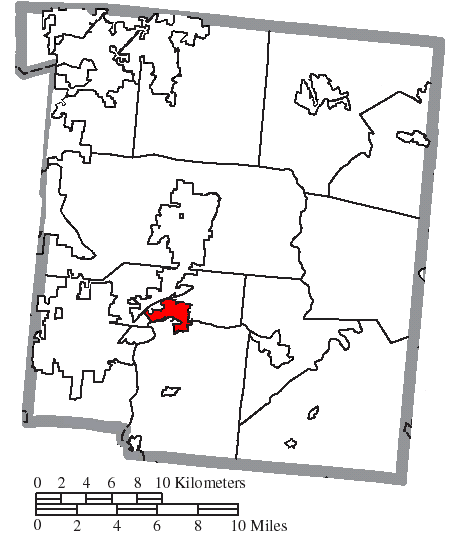 Map of the municipal and township boundaries of Warren County, Ohio, United States, as of the 2000 census, with the location of the village of South Lebanon highlighted. Township borders are shown only in unincorporated areas in order to differentiate incorporated and unincorporated areas more clearly.